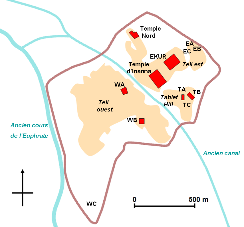 Map of Nippur, with the approximate shape of the main tells, the ancient walls and the ancient water courses. Location of the main monuments and the other zones excavated.